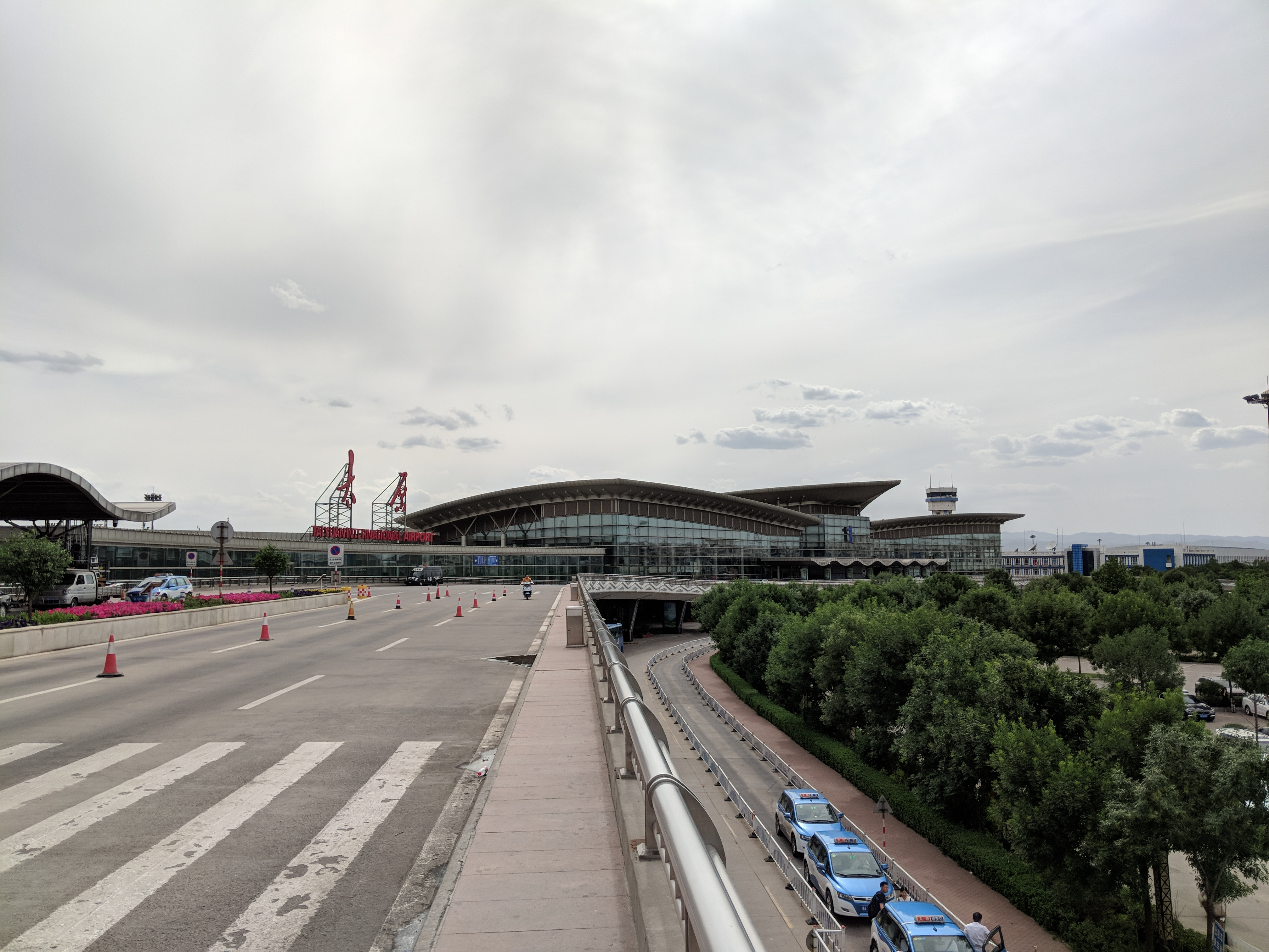 Taiyuan Wusu International Airport